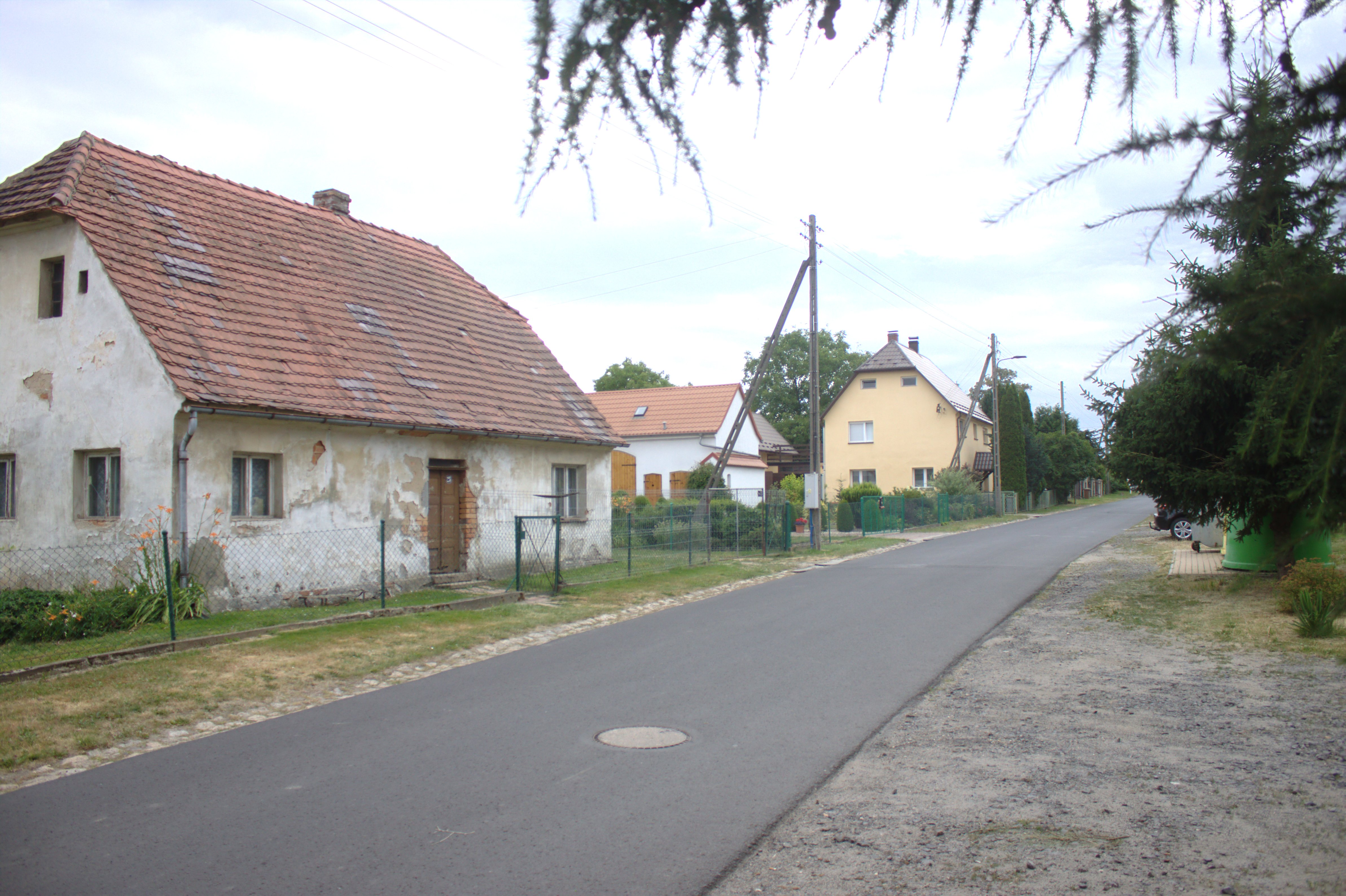 This photograph was created as a part of Wikiexpedition Lower Silesia, a project supported by Wikimedia Poland grant.